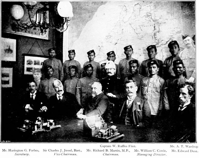 North Borneo Chartered Company:: Court of Directors